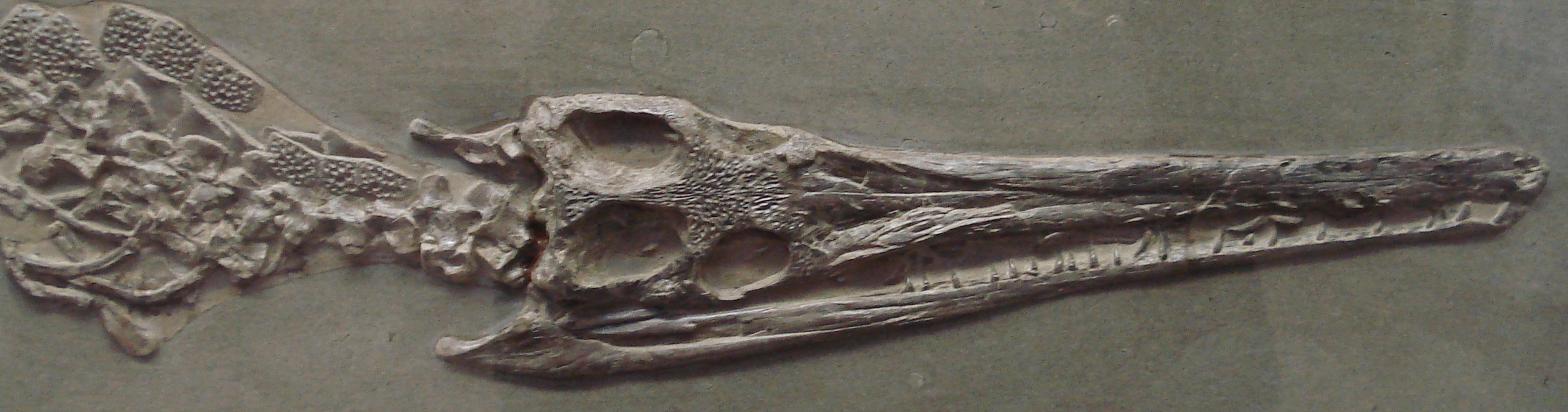 fossil of pelagosaurus